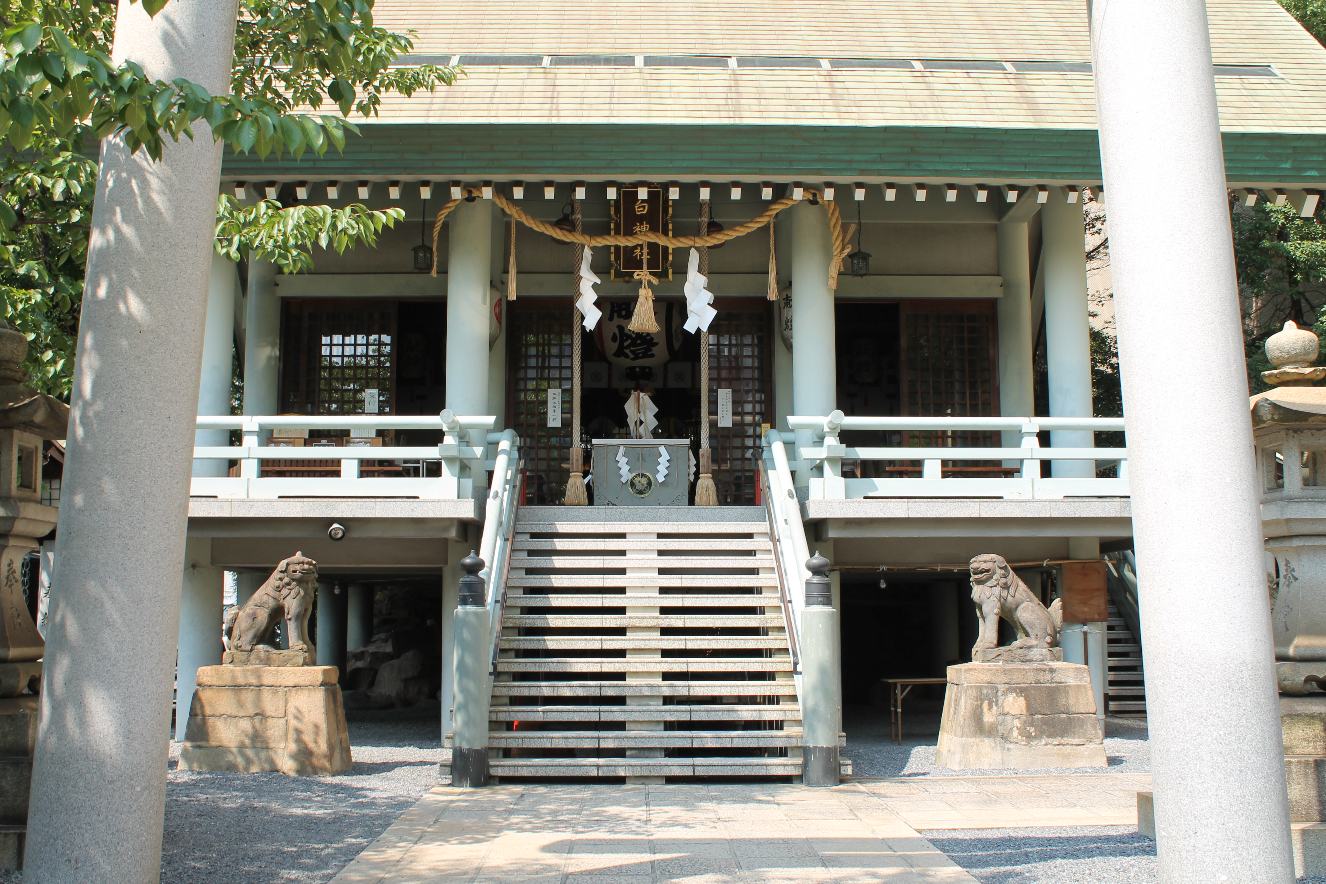 Shirakami-sha Shrine in Hiroshima